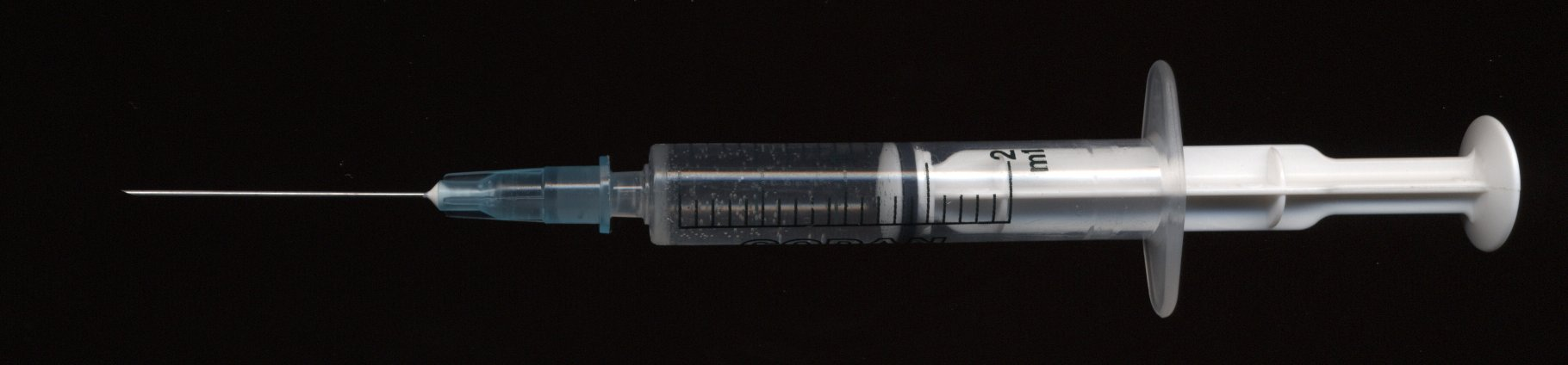 2 ml disposable syringe with 23G (0.6 x 30 mm) disposable hypodermic needle. Syringe is of brand Codan, made in Denmark. Syringe is half filled with liquid. Too dark - needs retouching before use. By me. Photo taken in 2006.